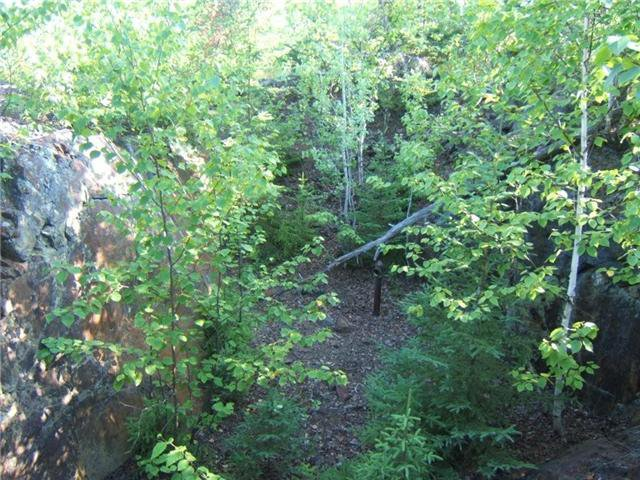 Remains of mine shaft at Little Dan mine in Temagami, Ontario.